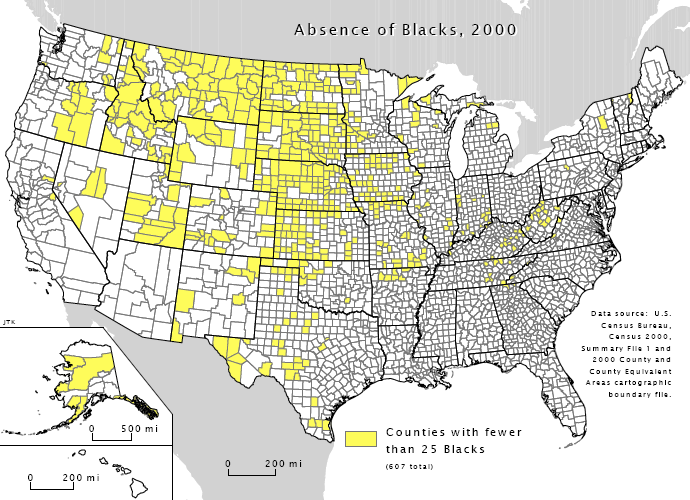 Map indicating U.S. counties with fewer than 25 black or African-American inhabitants. Image as based on the census 2000 by the U.S. Census Bureau. Badagnani (talk) 08:49, 23 May 2009 (UTC)